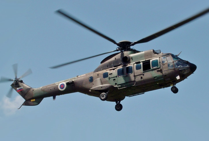 Slovenian Air Force AS532 (cropped)